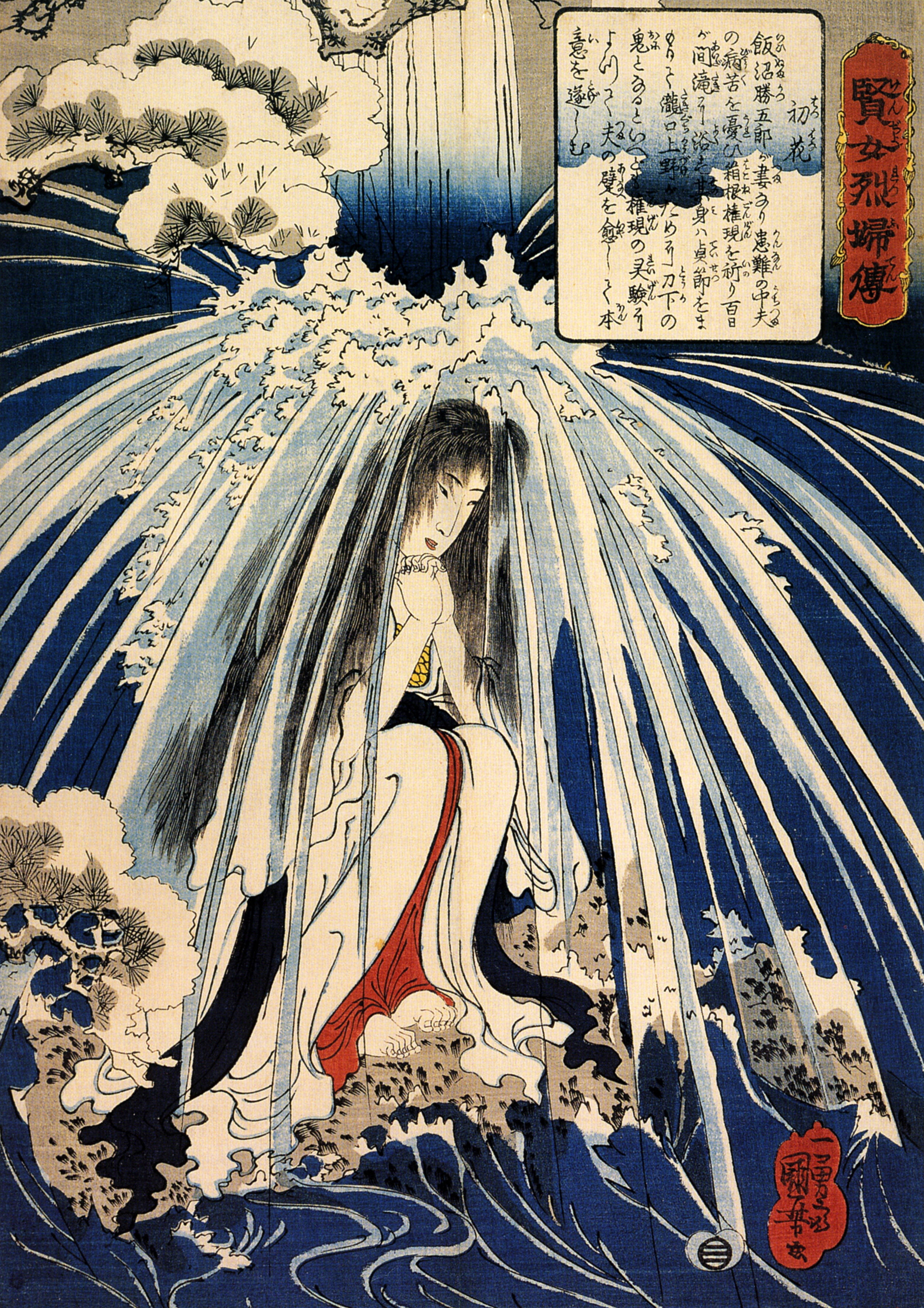 This selection is from stories of wise and virtuous women This print illustrates Hatsuhana (初花) doing penance under the Tonozawa waterfall for the cure of her son's knee, until the authorities killed her. Miraculously cured, Hatsuhana's son seeks revenge--killing his arc-enemy near the waterfall.